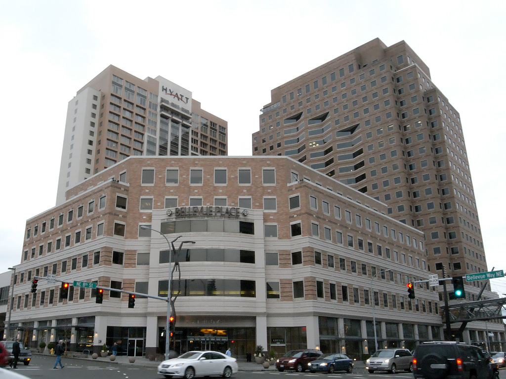 Bellevue Place